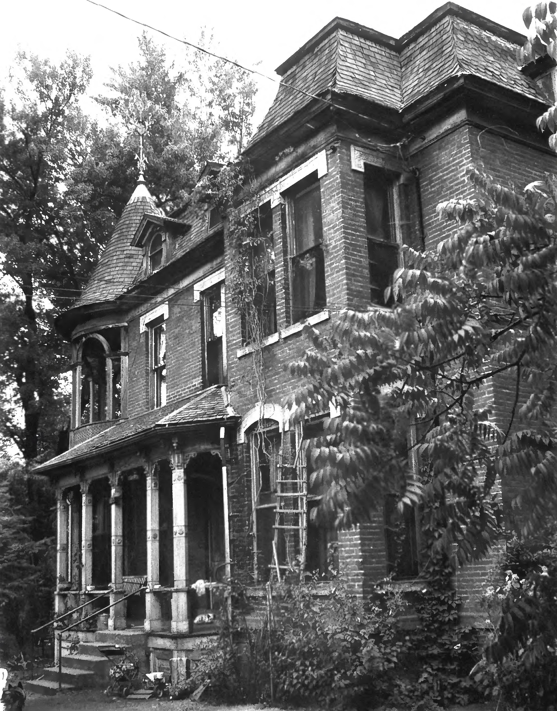 The historic Grant Whitney House (built 1890), formerly located at 1015 7th Avenue North in Payette, Idaho, United States, is listed on the US National Register of Historic Places. The house was demolished at some point prior to the upload date.